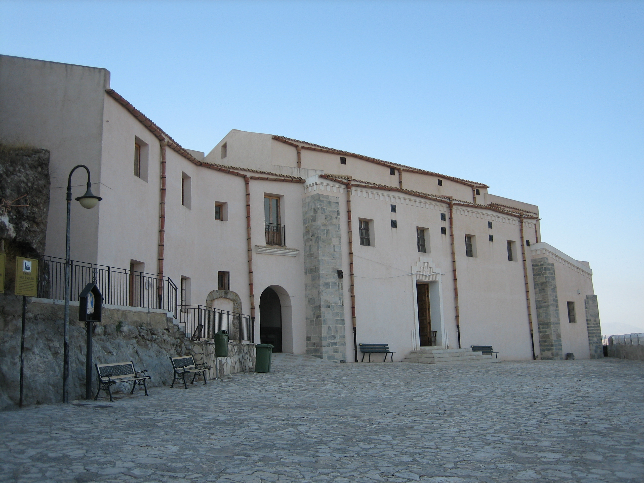 Sanctuary of San Paolino at Sutera (Sicily) with relics of Saint Paulinus of Nola